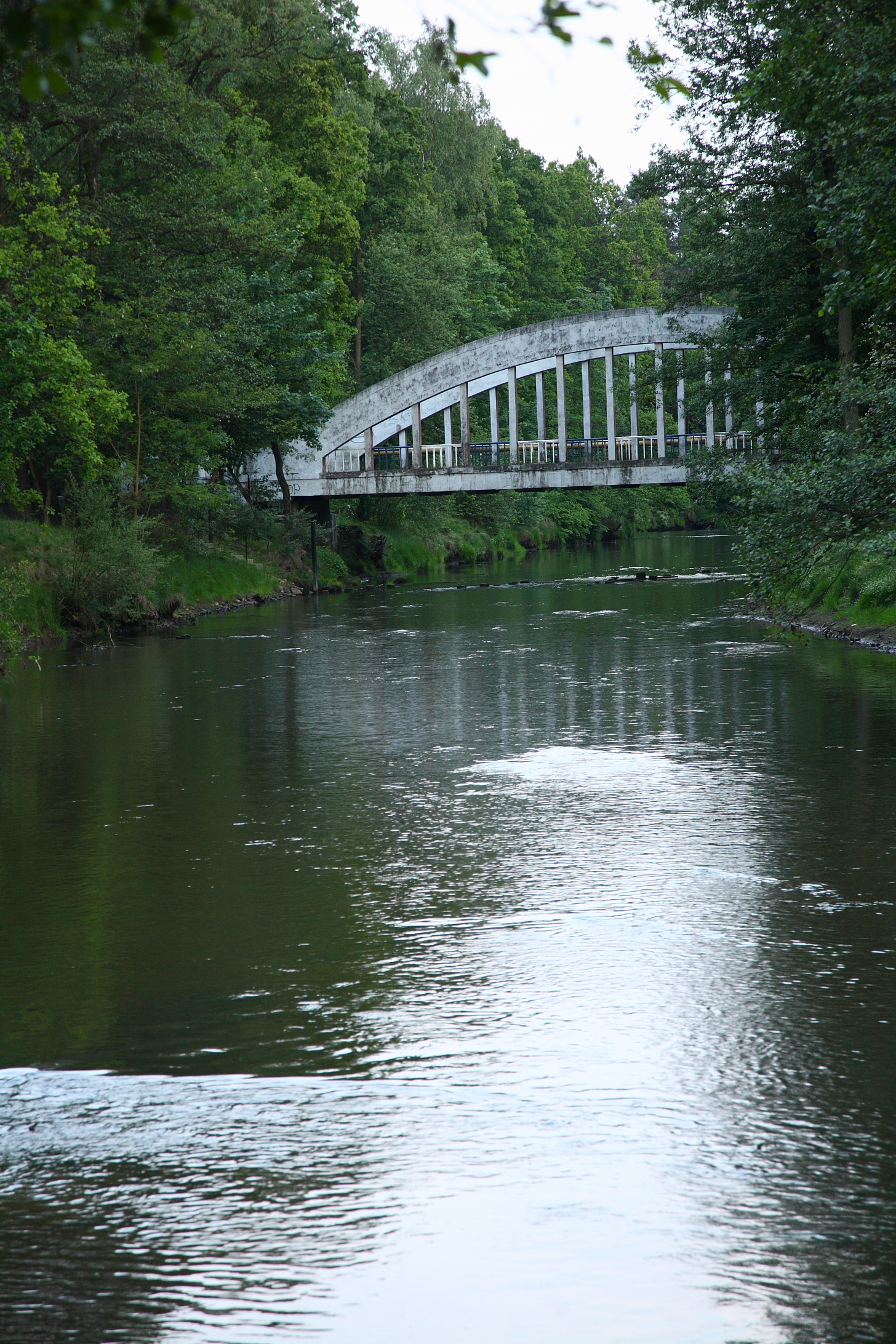 Mala Panew river by the concrete bridge in Krupski Młyn